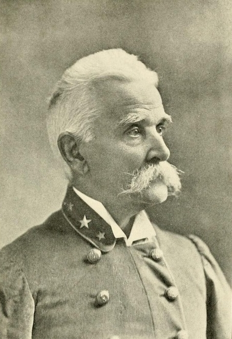 Thomas T. Munford in his later years. From A soldier's recollections; leaves from the diary of a young Confederate, with an oration on the motives and aims of the soldiers of the South, by McKim, Randolph H. (Randolph Harrison), 1842-1920. New York: Longmans, Green, and Co., 1910.